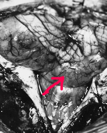 Ependymoma of the posterior fossa marked by pointer